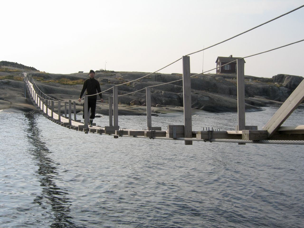 Söderskär, Finland - A long and narrow bridge